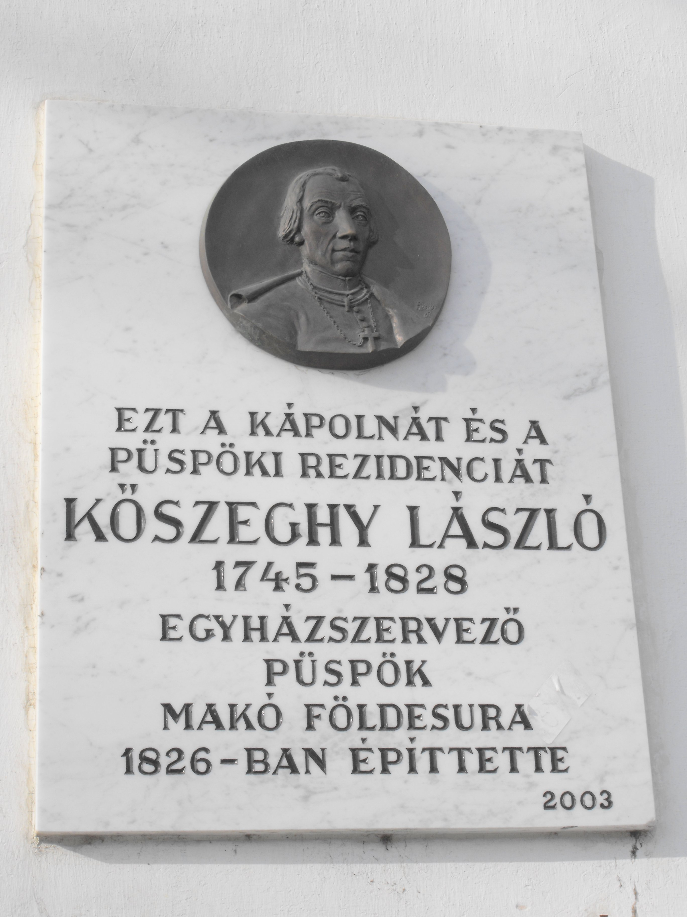 Memorial tablet of László Kőszeghy, bishop and landlord in Makó, Hungary.